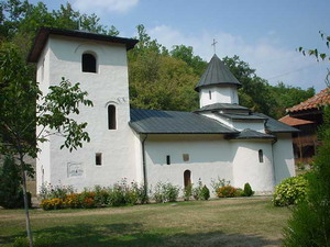 Serbian orthodox monastery of Voljavča near Stragari, Serbia/Le monastère orthodoxe serbe de Voljavča près de Stragari, Serbie